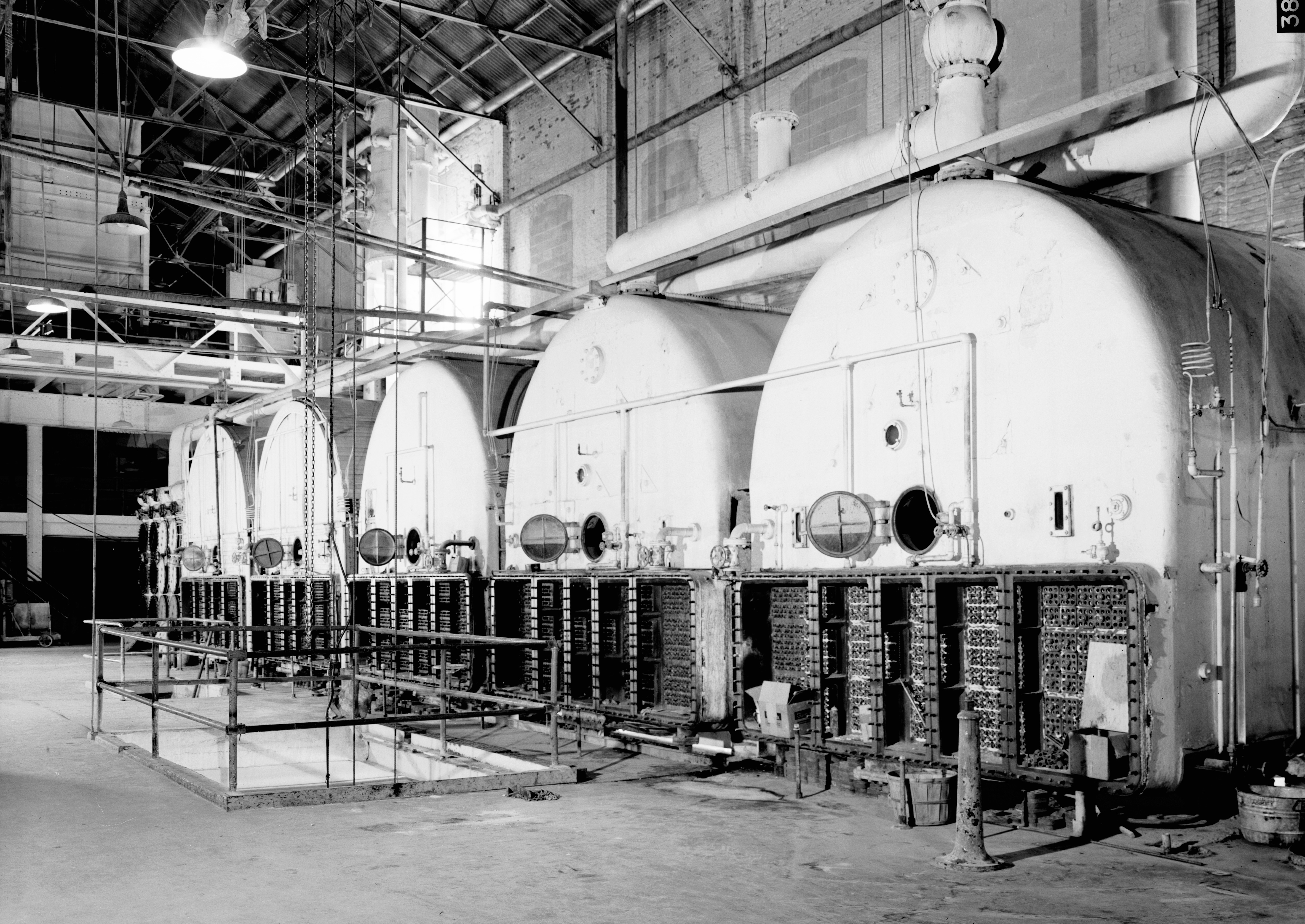 "SECOND FLOOR LOOKING NW. EVAPORATOR UNITS USED IN SEQUENCE TO REDUCE OR CONCENTRATE BEET JUICE. Utah Sugar Company, Garland Beet Sugar Refinery, Factory Street, Garland vicinity, Box Elder County, UT" Survey number HAER UT-19